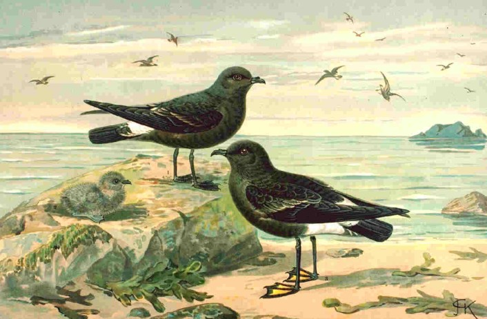 Hydrobates pelagicus and Oceanites oceanicus from Naturgeschichte der Vögel Mitteleuropas. Note: illustration shows the birds in very inaccurate postures.